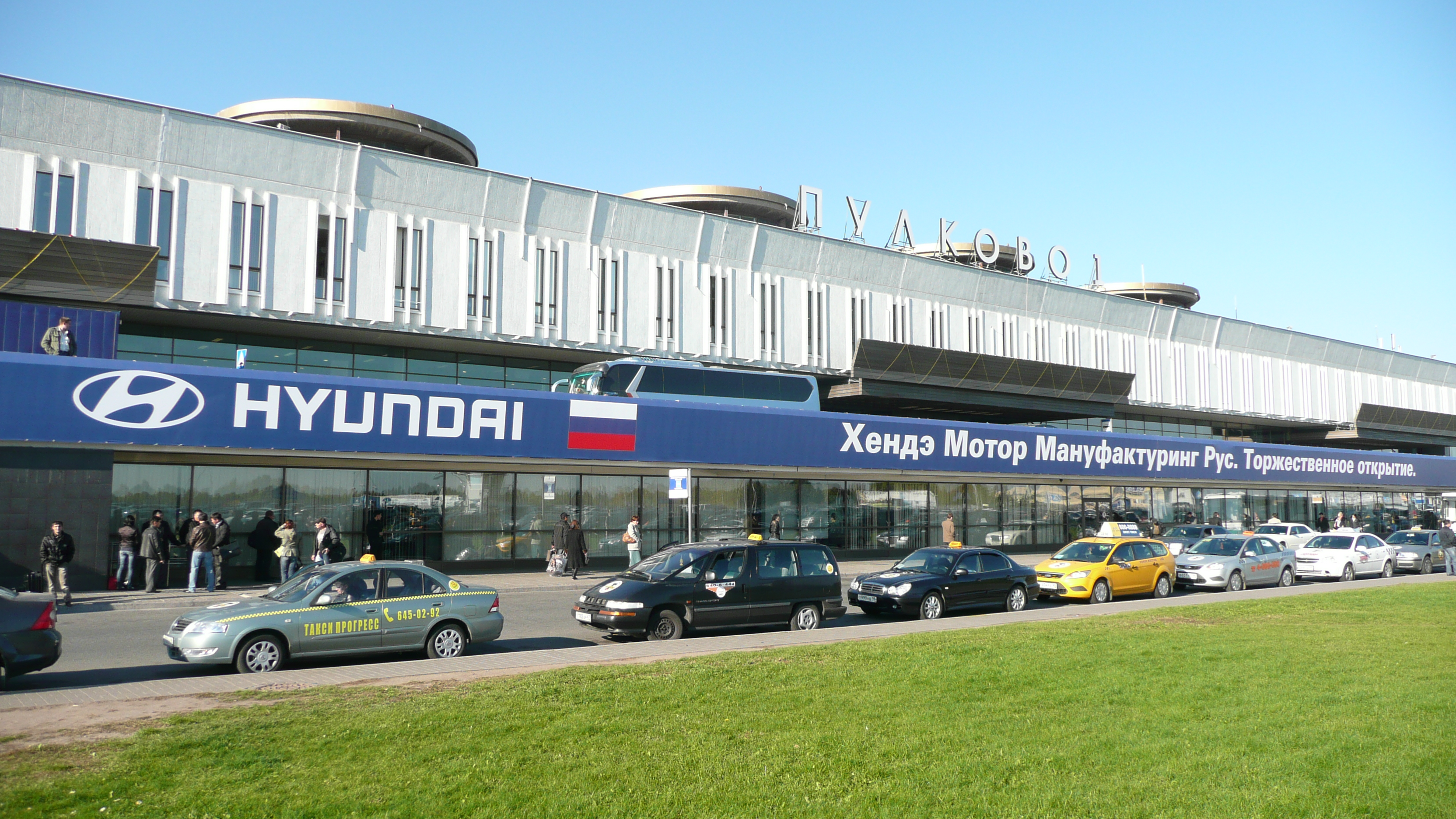 Airport Pulkovo 1, St. Petersburg - National Flights